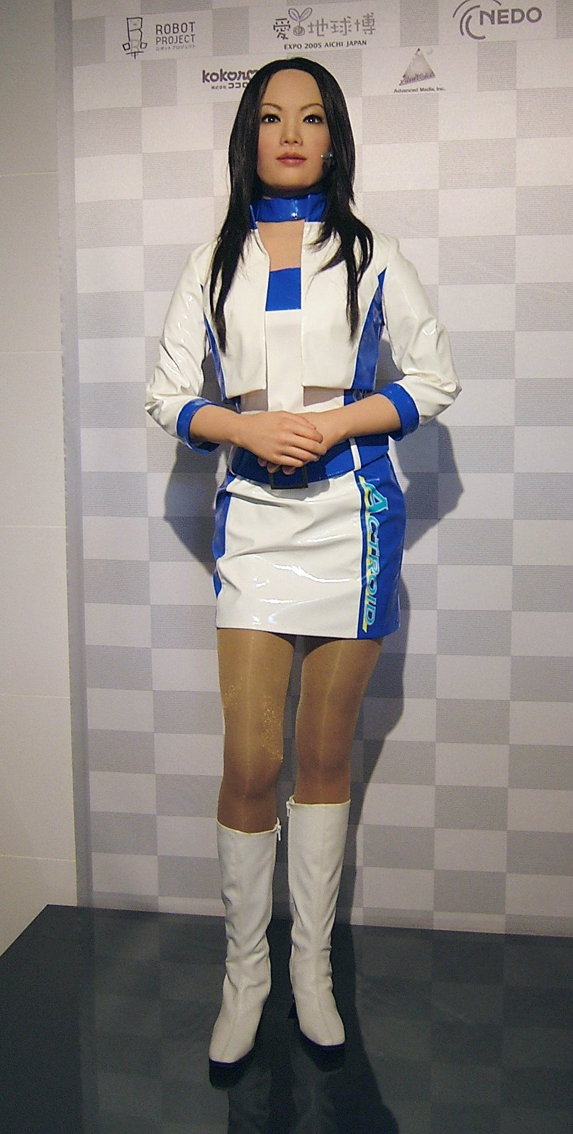 Cropped version of File:Actroid-DER 01.jpg (lossless JPEG crop)